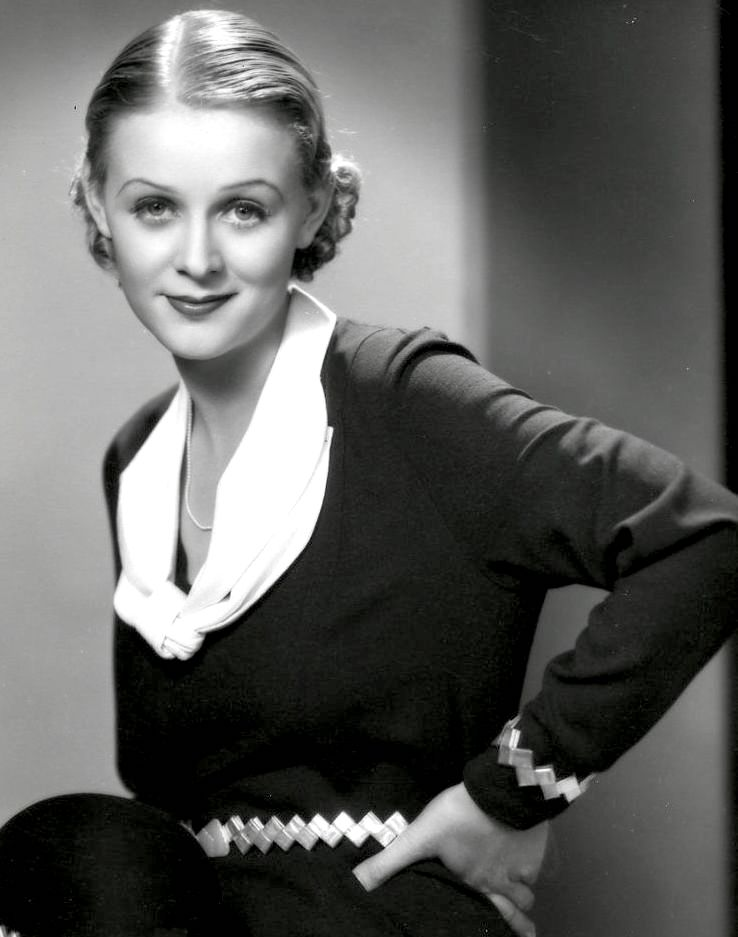 Gloria Stuart by Ray Jones ca. 1930s